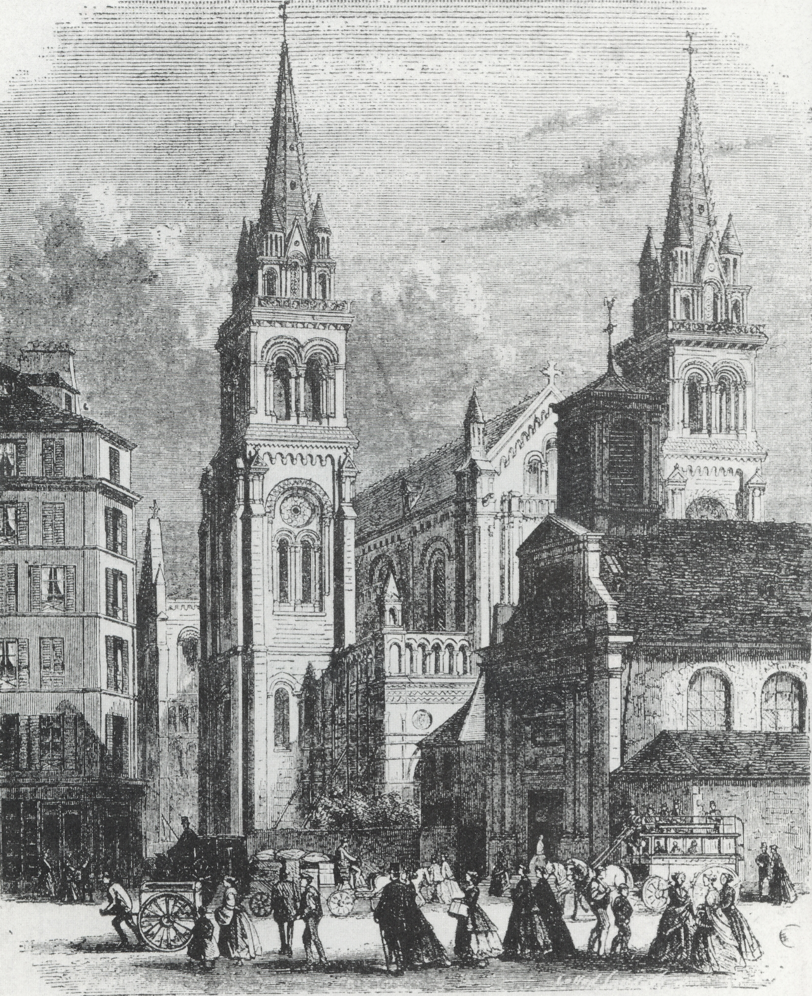 Engraving of 1868 showing the Saint-Ambroise church behind the Notre-Dame de la Procession church, Bd Voltaire in Paris. The Notre-Dame church will be demolished the same year and replaced by a public garden.